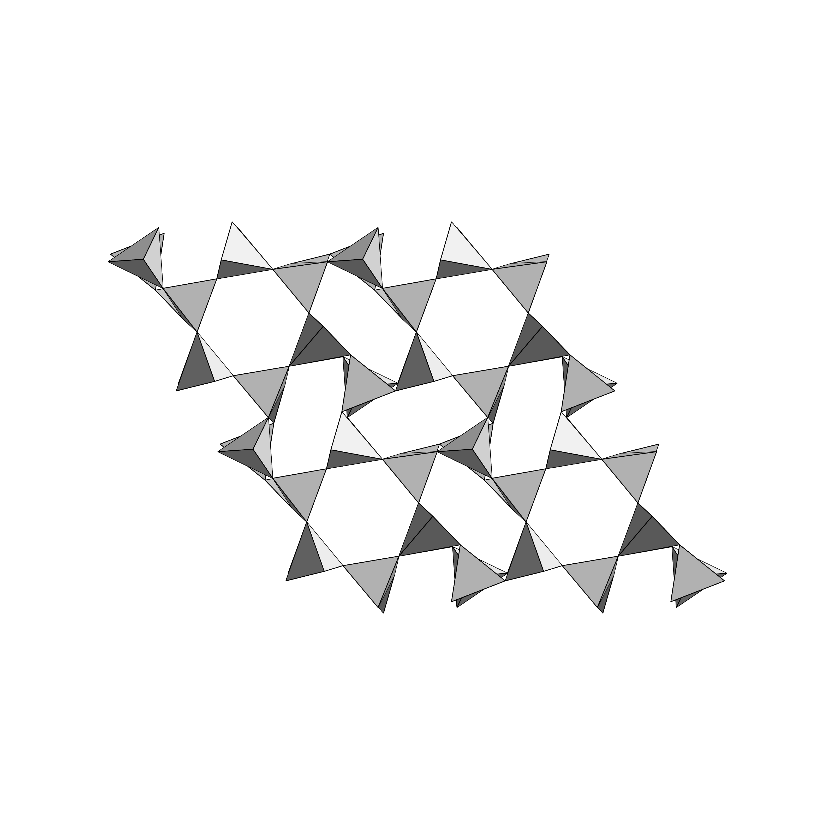 Nepheline silicate framework, view along c-axis Data from: Buerger M J., Klein G E., Donnay G. (1954): Determination of the crystal structure of nepheline, American Mineralogist 39, pp. 805-818 Calculation of image data: Larry W. Finger, Martin Kroeker, and Brian H. Toby, DRAWxtl, an open-source computer program to produce crystal-structure drawings, J. Applied Crystallography V40, pp. 188-192, 2007 Rendering: POVRAY